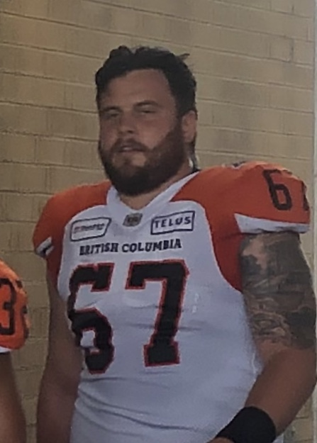 Hunter Steward, offensive lineman for the BC Lions.